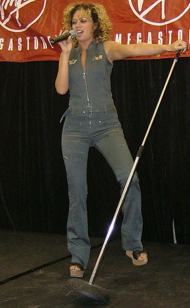 Cropped image of Jade McRae performs at an instore appearance, Virgin Records, Sydney.